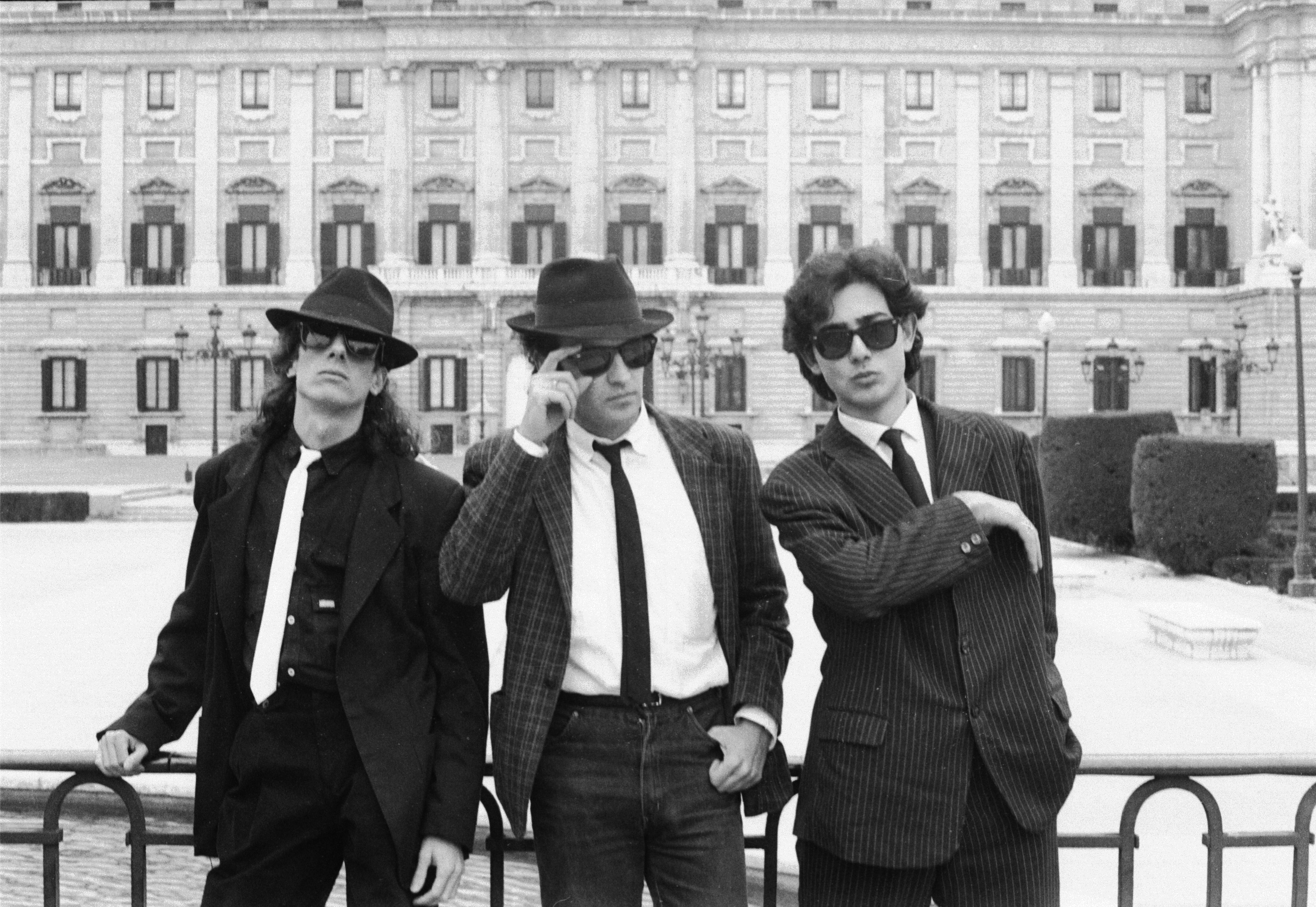 Ejecutores, 1990.